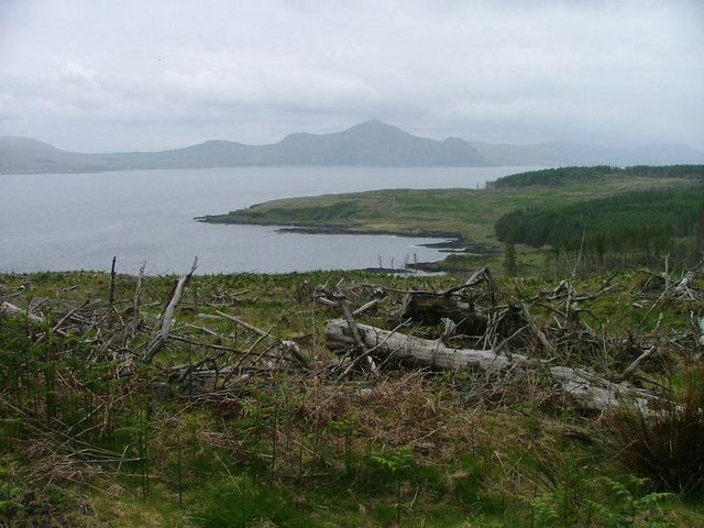 Ardmore Bay. Beyond the bay is Ardmore Point, outside the grid square. Across the Sound of Mull can be seen Ben Hiant, 528m, on Ardnamurchan.